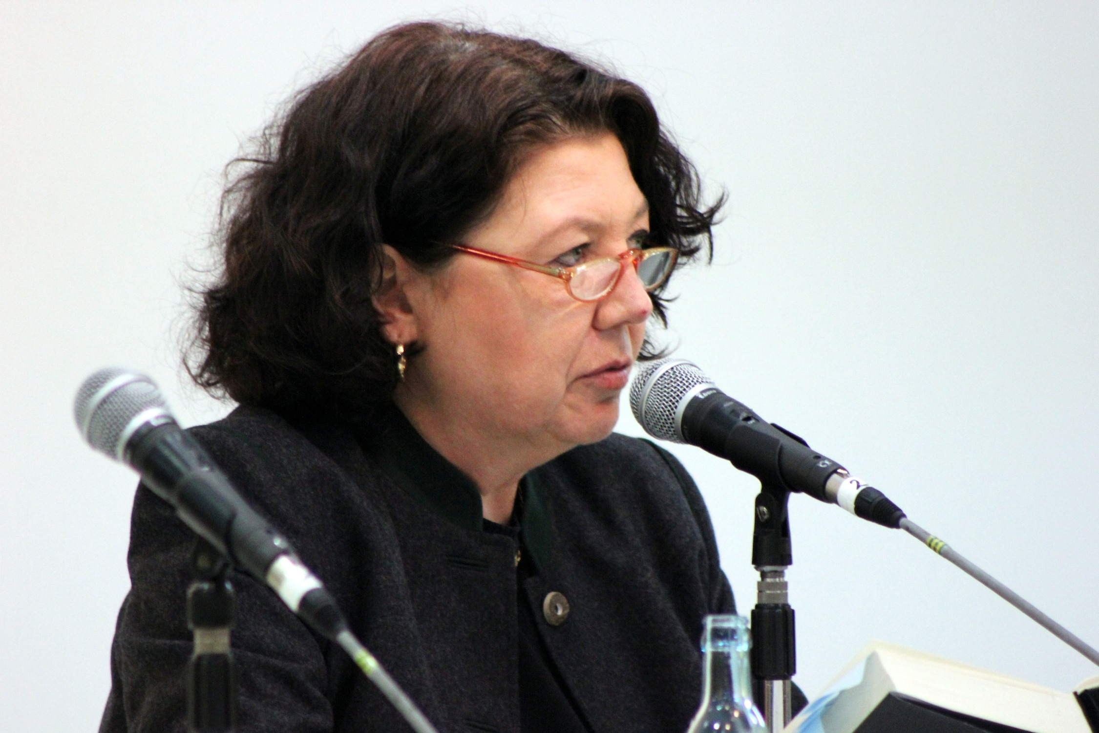 Sabine Thiesler, Leipzig Book Fair 2013